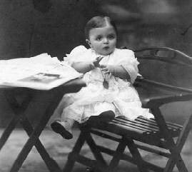 Roberto Weiss cerca 1909